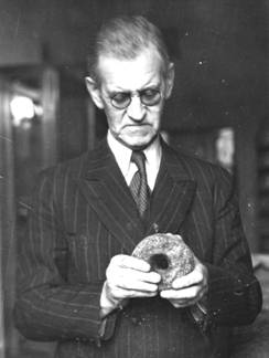 Aarne Äyräpää (1887–1971; Q6254387), a Finnish archaeologist and historian.